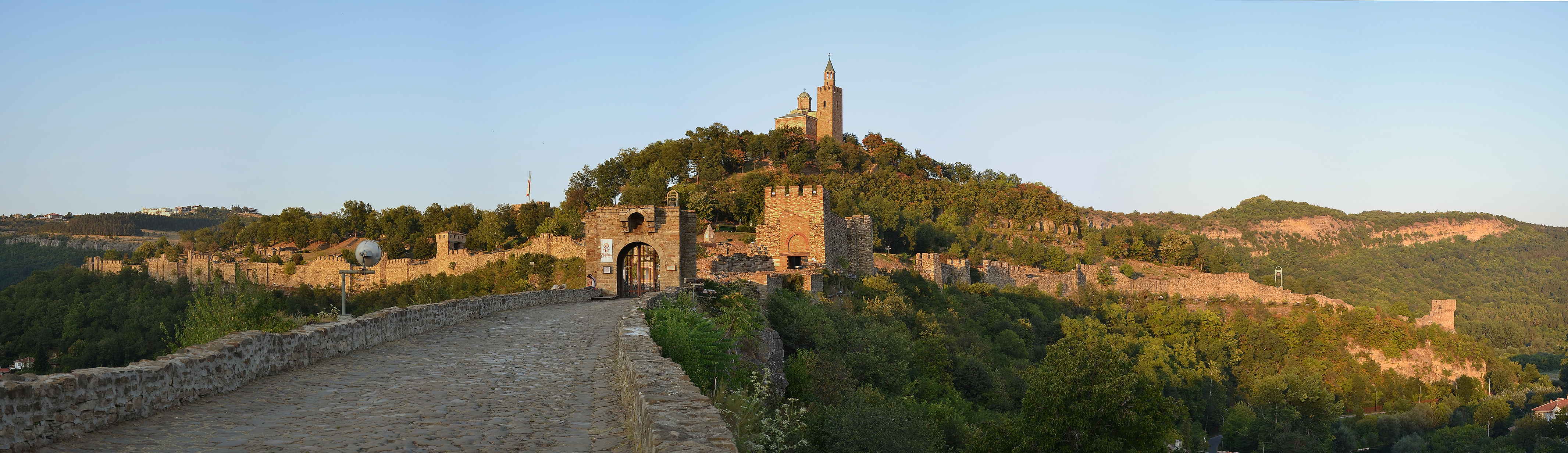 Veliko Tarnovo (Велико Търново) - Tsarevets